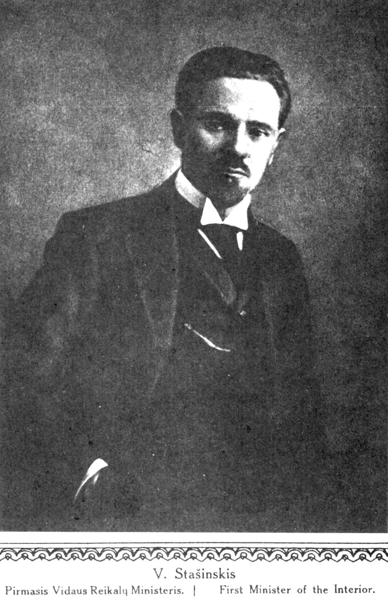 Vladas Stašinskas, member of State Duma of the Russian Empire from Lithuania, Lithuanian lawyer, minister